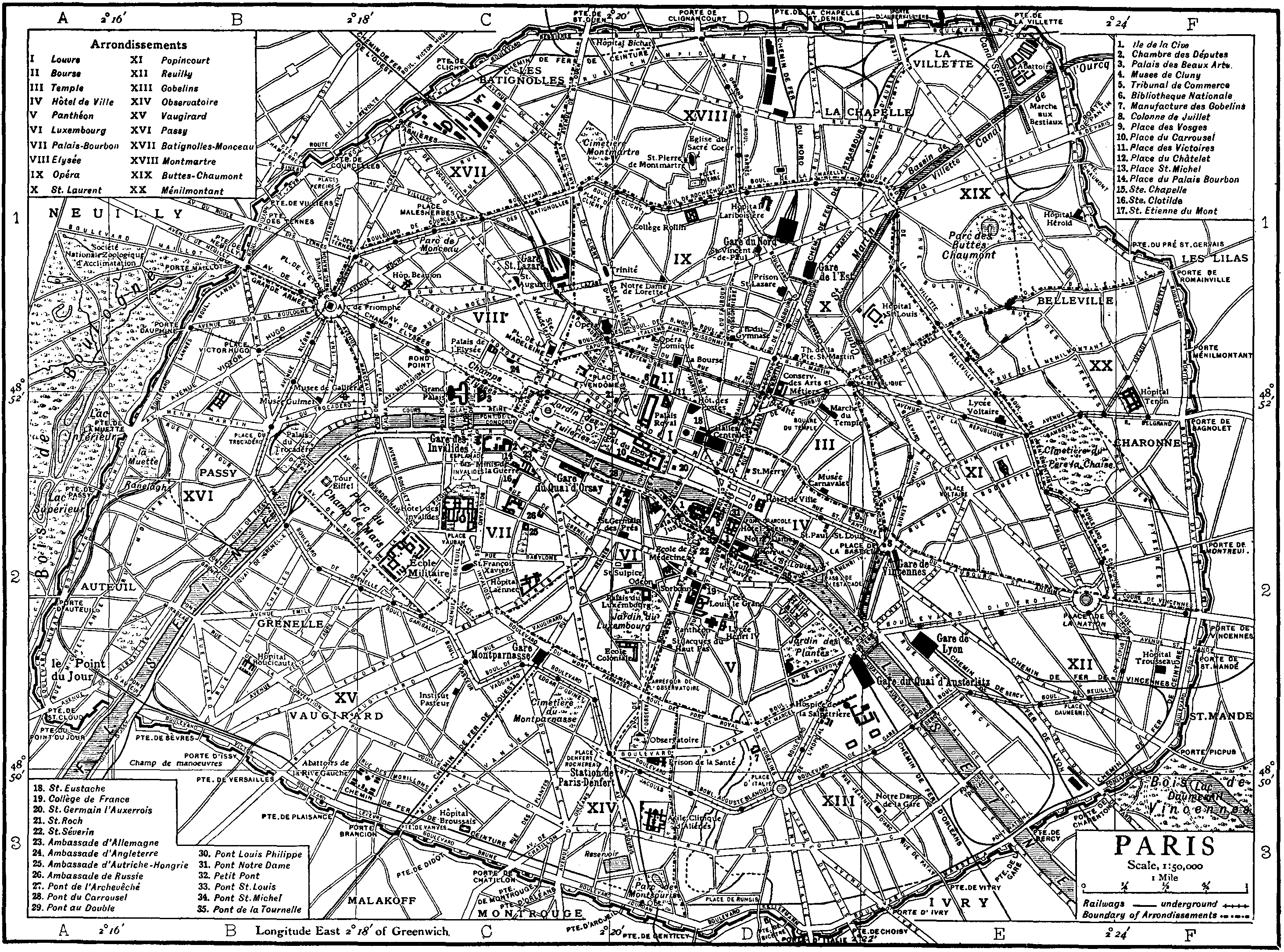 Black and white map of Paris, France.